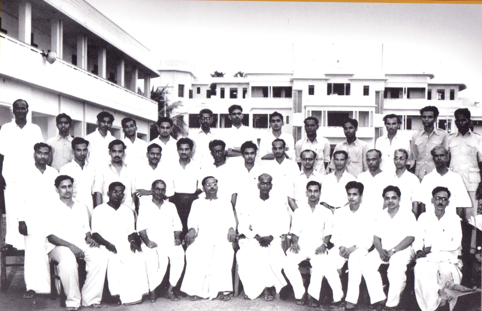 Shri Nagi Reddy and Shri Chakrapani with the Chandamama Magazine team in 1952